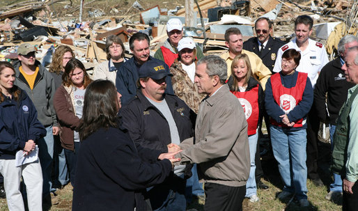 U.S. President George W. Bush greets tornado victims at Lafayette, Tennessee neighborhood on February 8, 2008, and assures them they will receive help from the government.